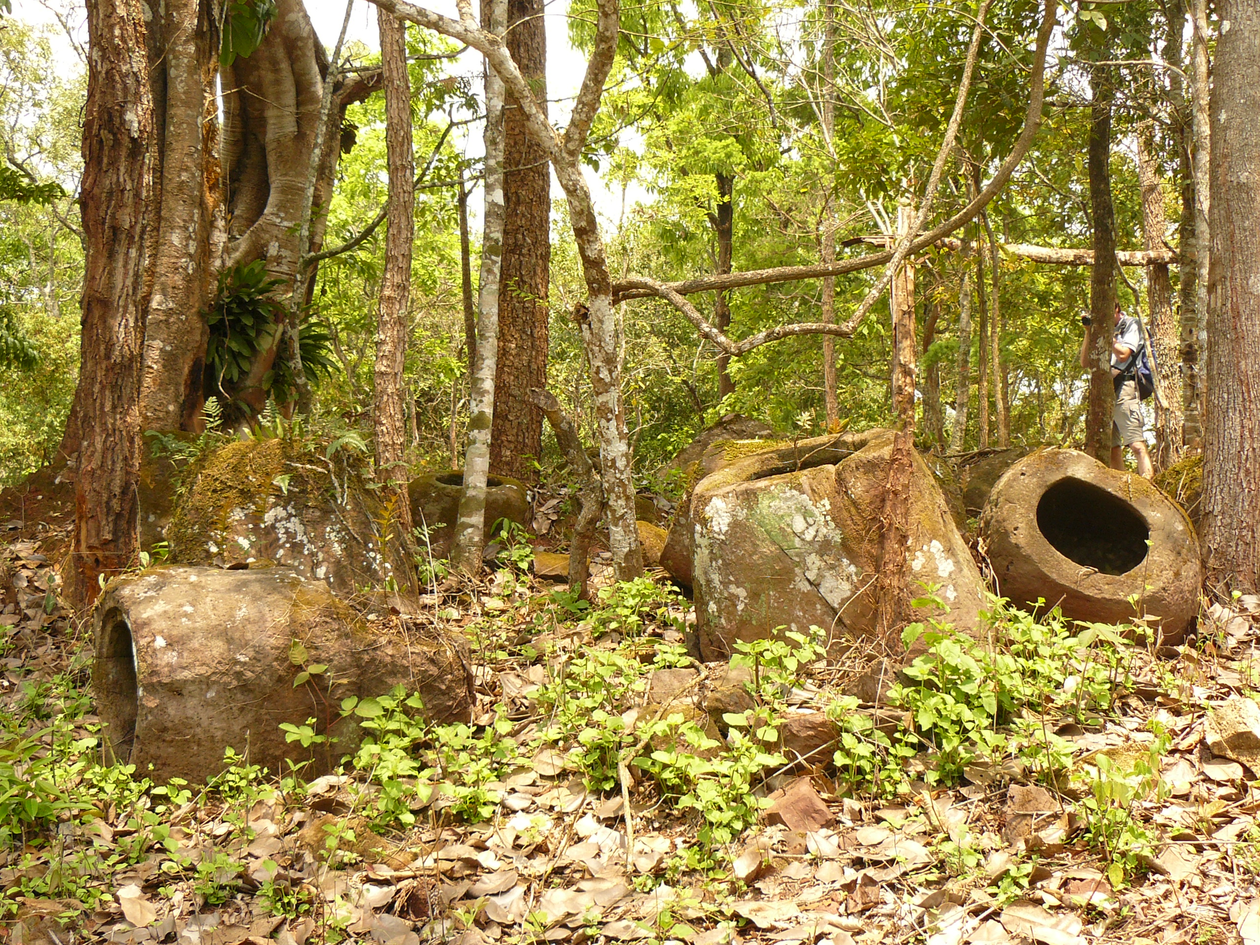 Phakeo Jar site, Plain of Jars, Xieng Khouang Province, Laos